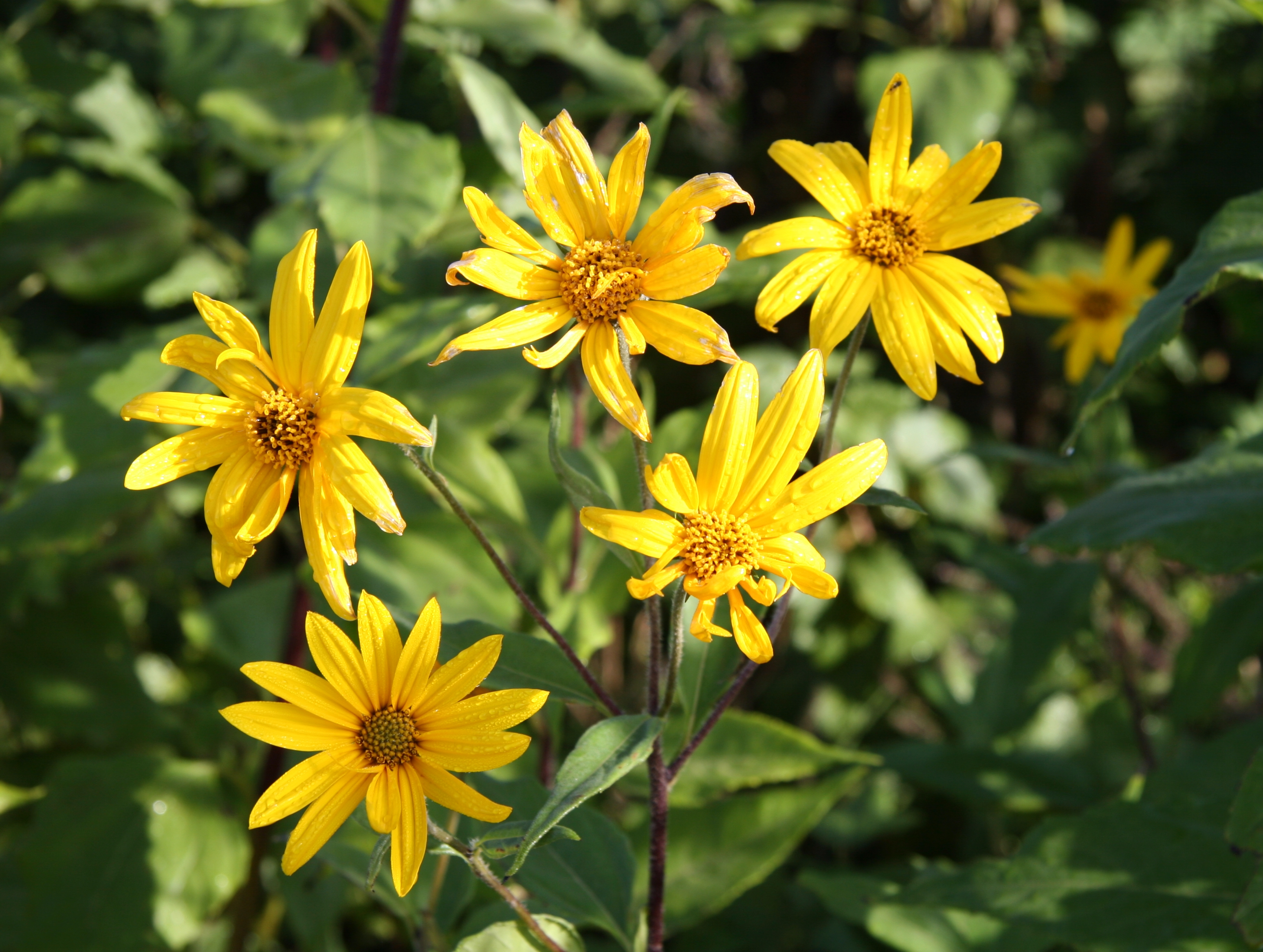 Estonia, Põlva County